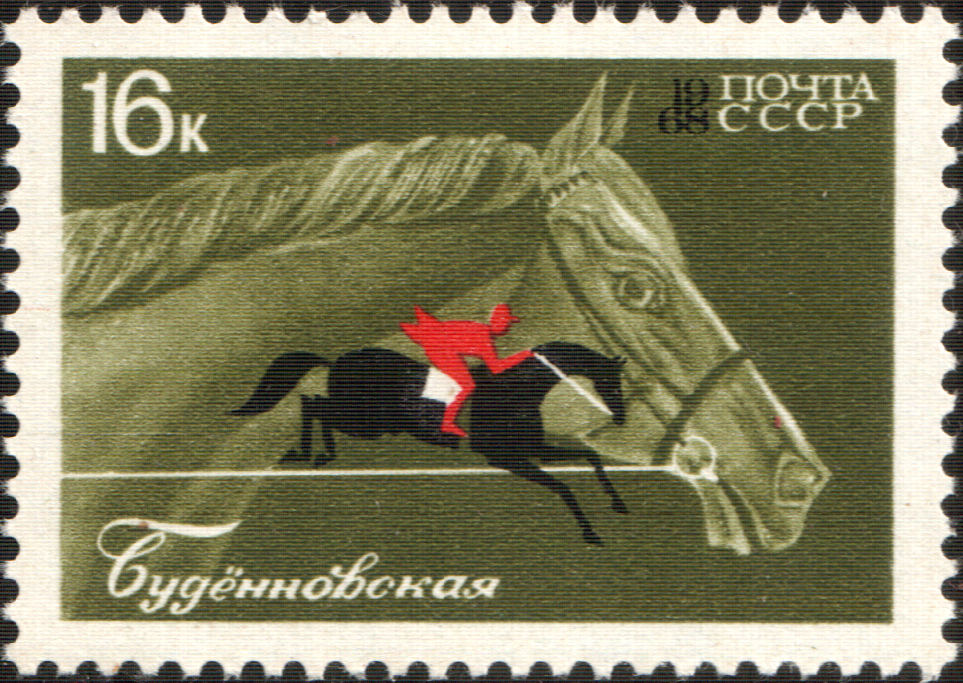 USSR stamp: Budyonny Horse and Show Jumping. Series: Soviet Horse Breeding and Riding